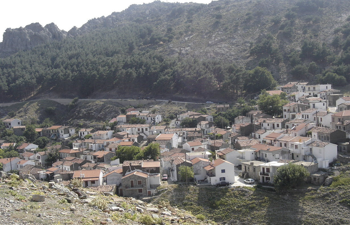 Samothraki